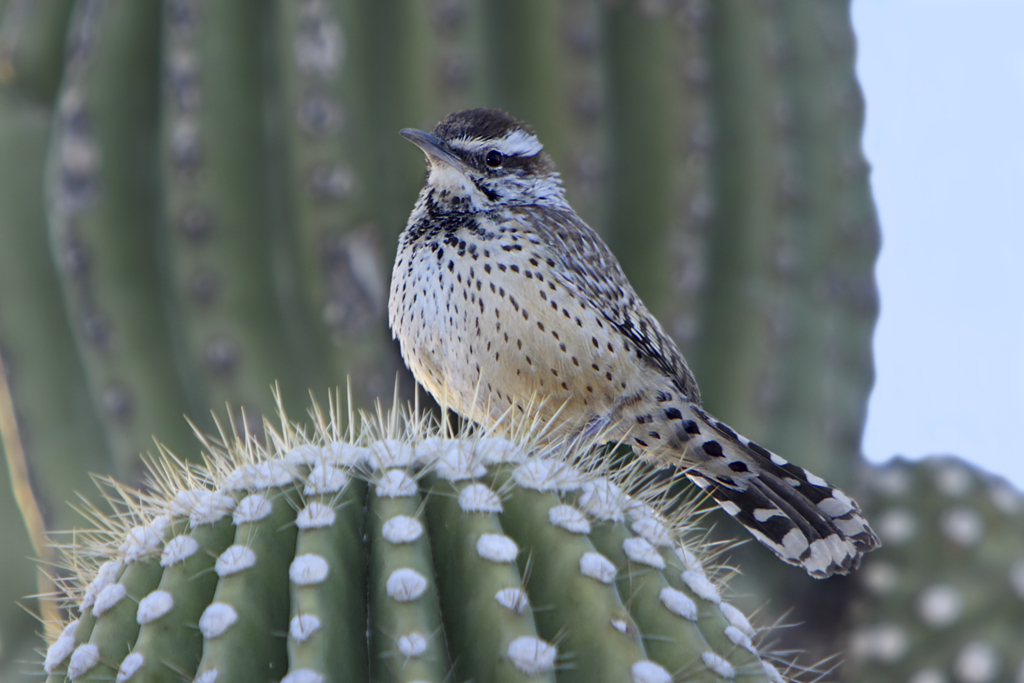 Campylorhynchus brunneicapillus, Sabino Canyon, Arizona.